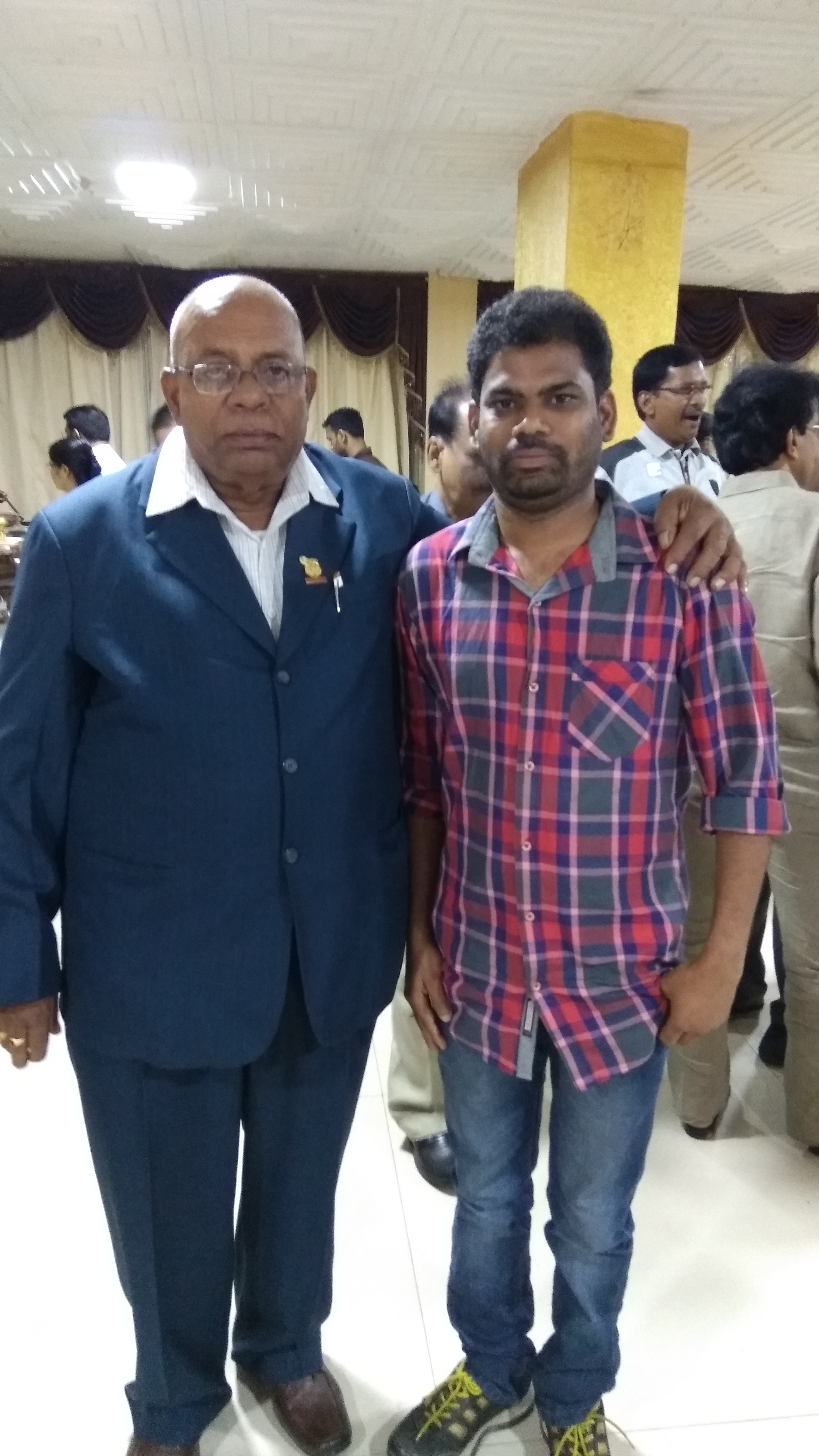 జనువాడ రామస్వామి హైదరాబాద్ వెస్ట్ జోన్ లయన్స్ క్లబ్ ప్రెసిడెంట్ గా ప్రమాణస్వీకారం చేసిన సందర్భంలో తీసిన ఫోటో